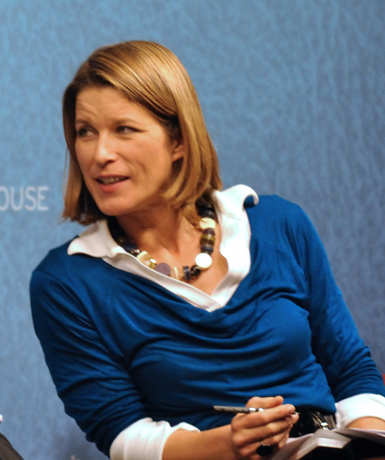 Stephanie Flanders, Economics Editor, BBC chairing the Chatham House Debate: Is a Two-Speed Europe Sustainable in the Long-term? 18 October 2011